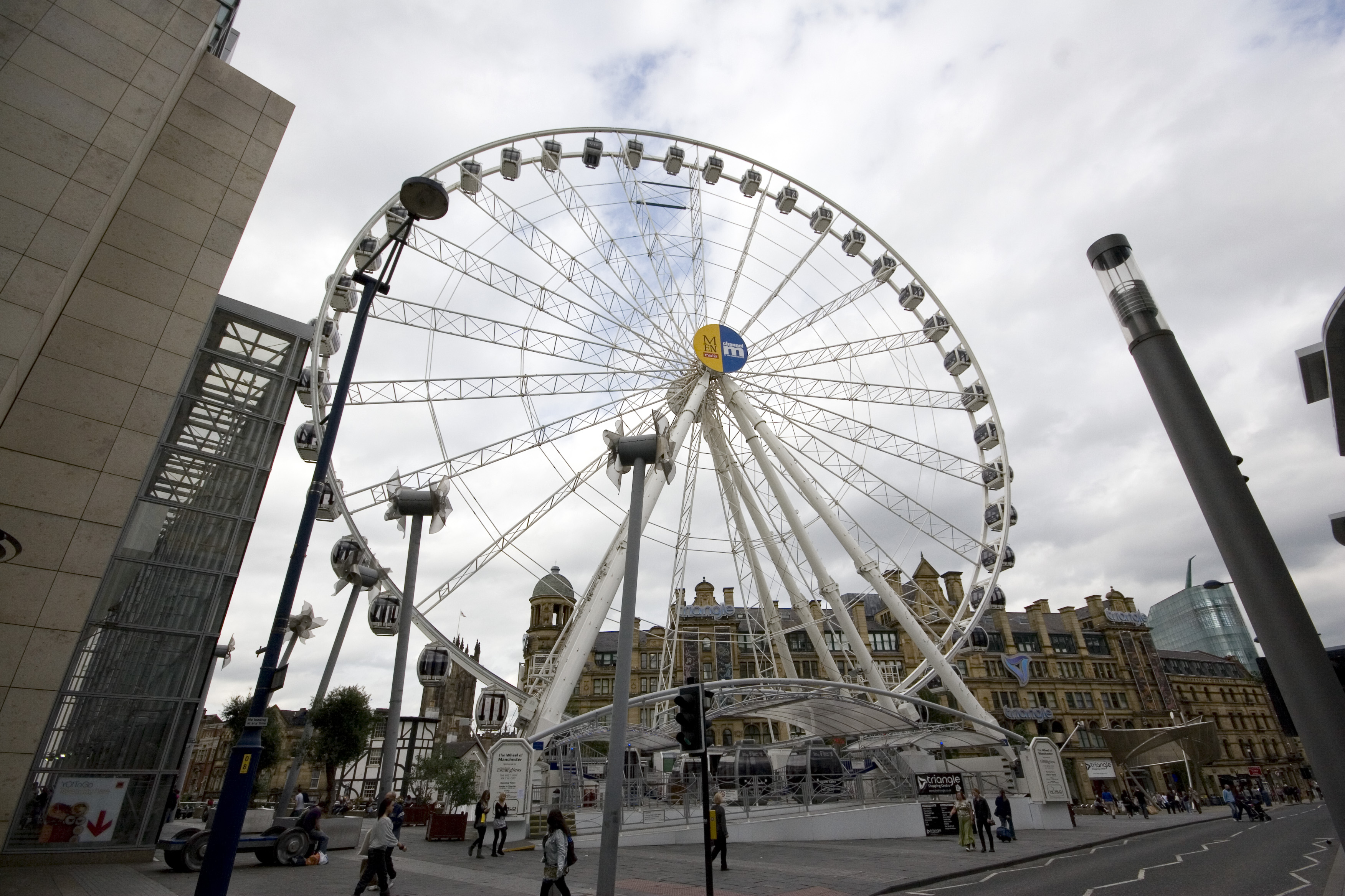 The Manchester Eye.